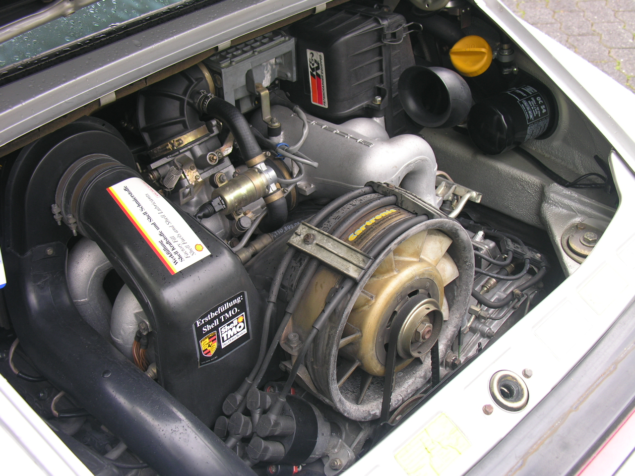 Photo shows engine compartment of Porsche 911 Carrera 3,2 l.